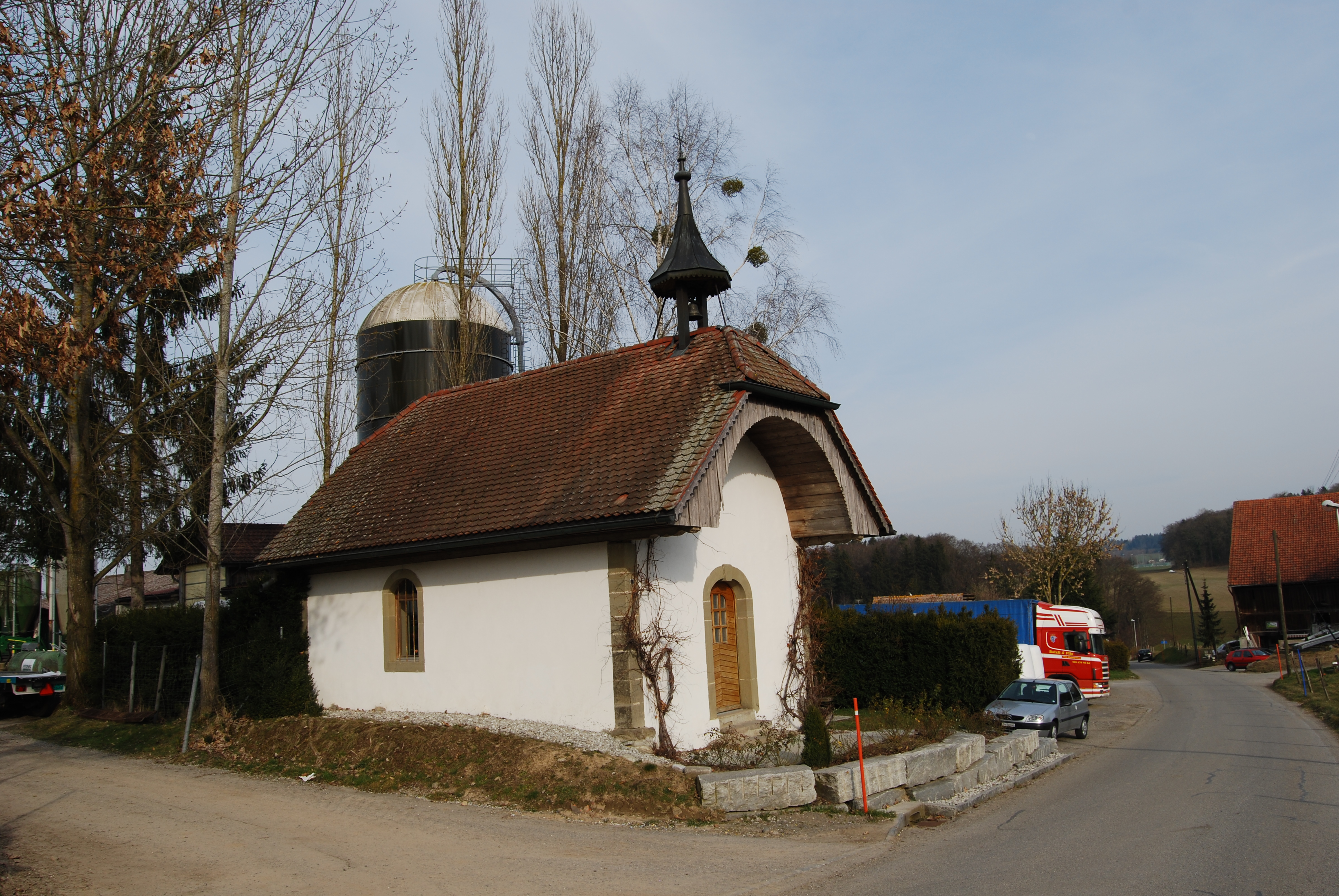 Chapel of Saint-Udalric at Chésopelloz, canton of Fribourg, Switzerland